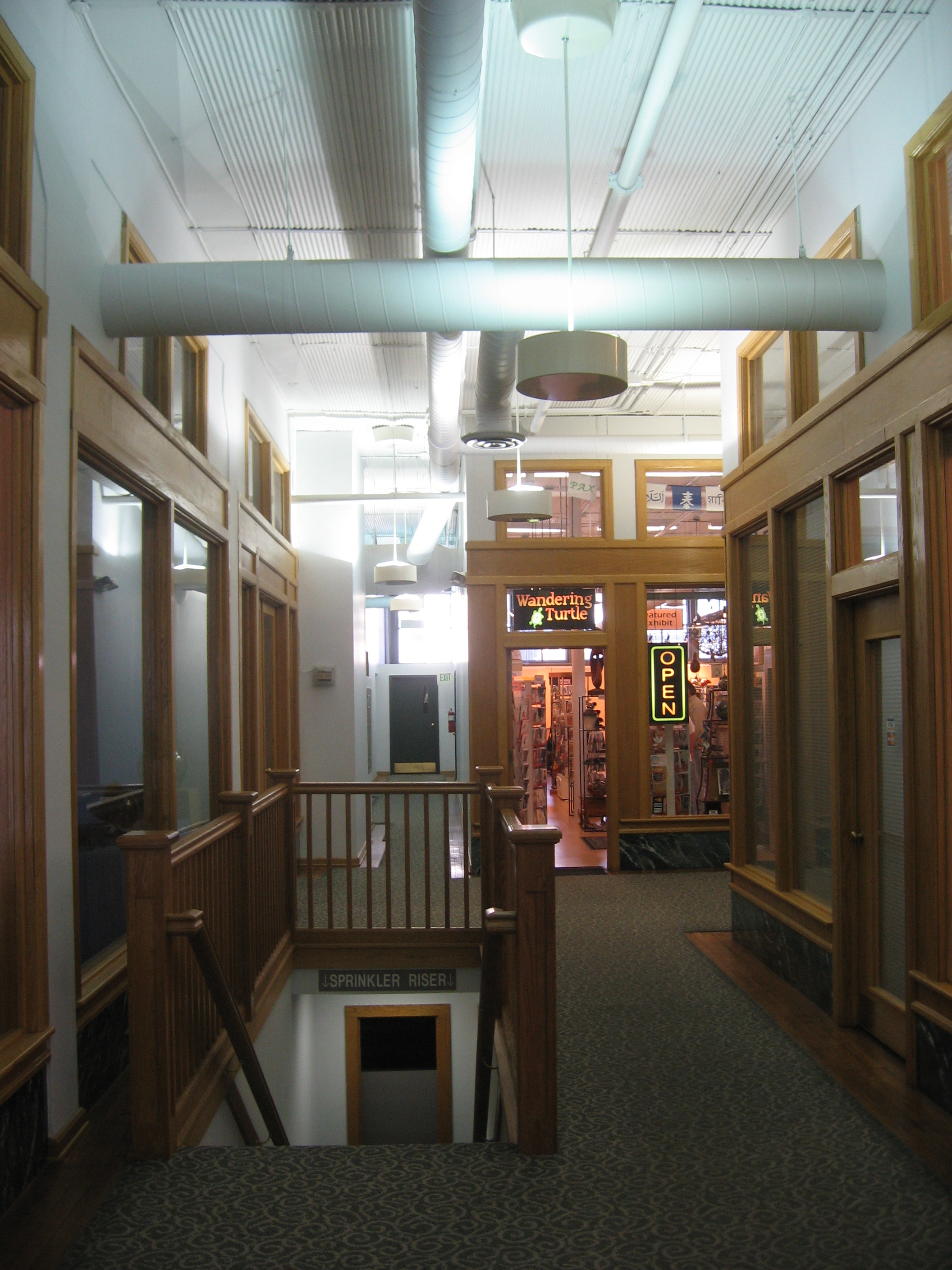 Interior of the Wicks Building, located at 116 W. Sixth Street in downtown Bloomington, Indiana, United States. Built in 1915, it is listed on the National Register of Historic Places, and it is part of the Register-listed Courthouse Square Historic District.